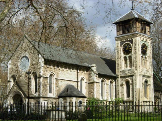 St Pancras Old Church There has been a church on this site since pre-Norman times, although the present building was heavily rebuilt in 1848, following years of neglect and dilapidation, including replacement of the tower. It is called the Old Church to distinguish it from the New Church on Euston Road which was consecrated in 1822.